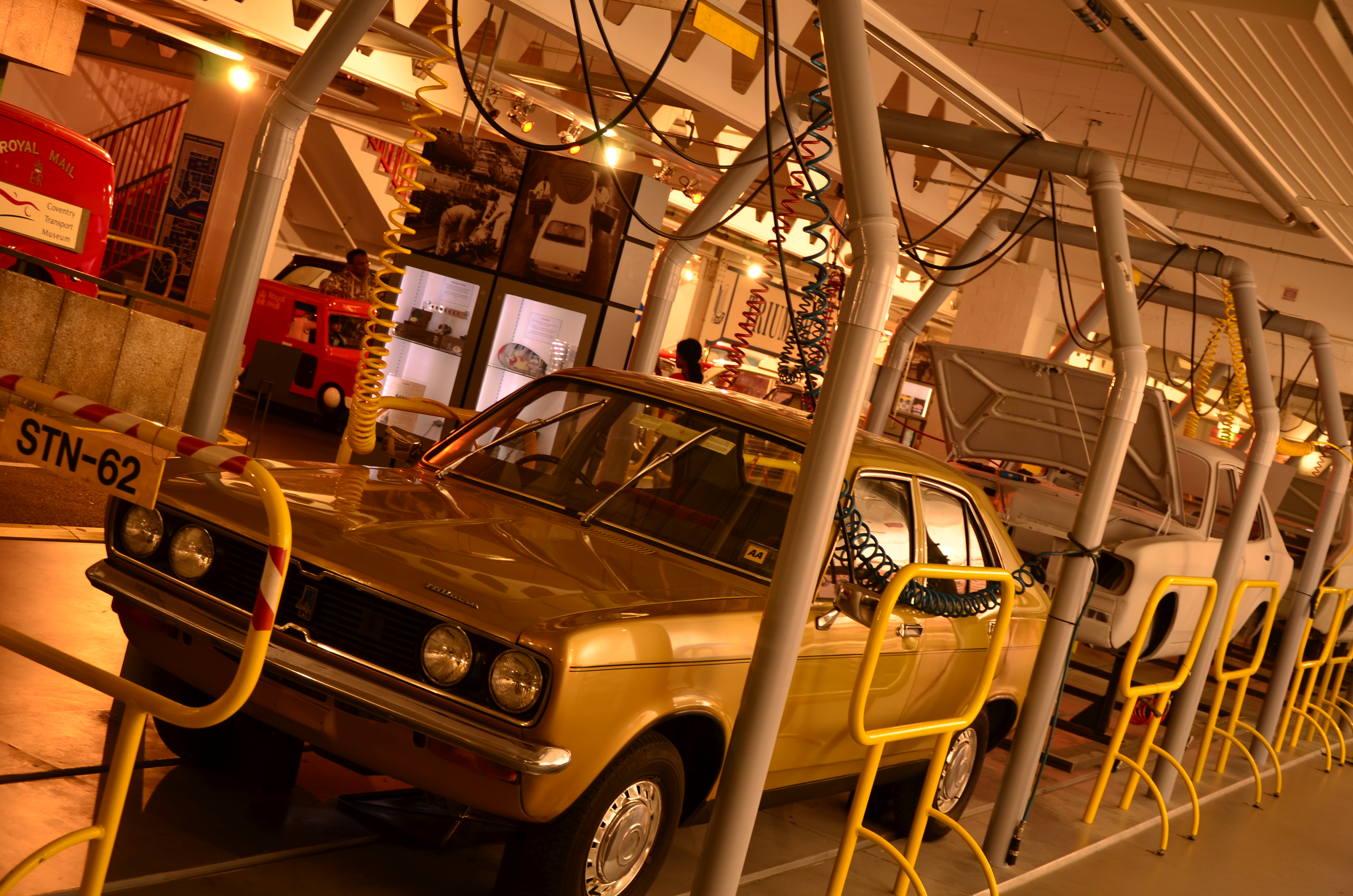 Talbot Avenger production line